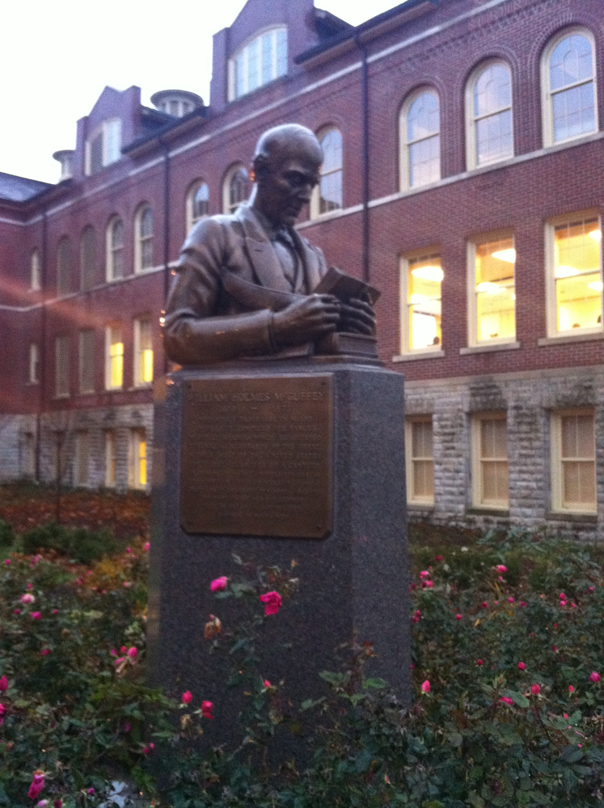 Bust of William McGuffey outside McGuffey Hall, Miami University